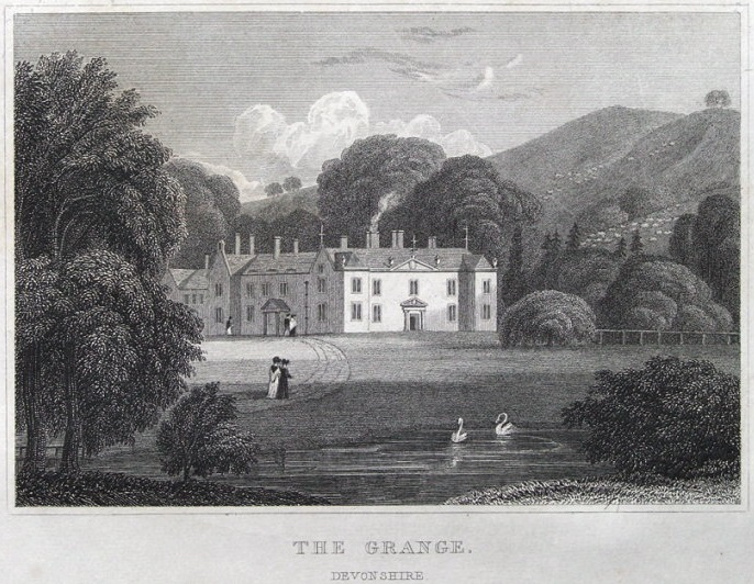 The Grange in the parish of Broadhembury, Devon. Engraving after J.P.Neale, published by Jones & Co. in "Views of the Seats of Noblemen and Gentlemen in England, Wales, Scotland and Ireland", London, 1829